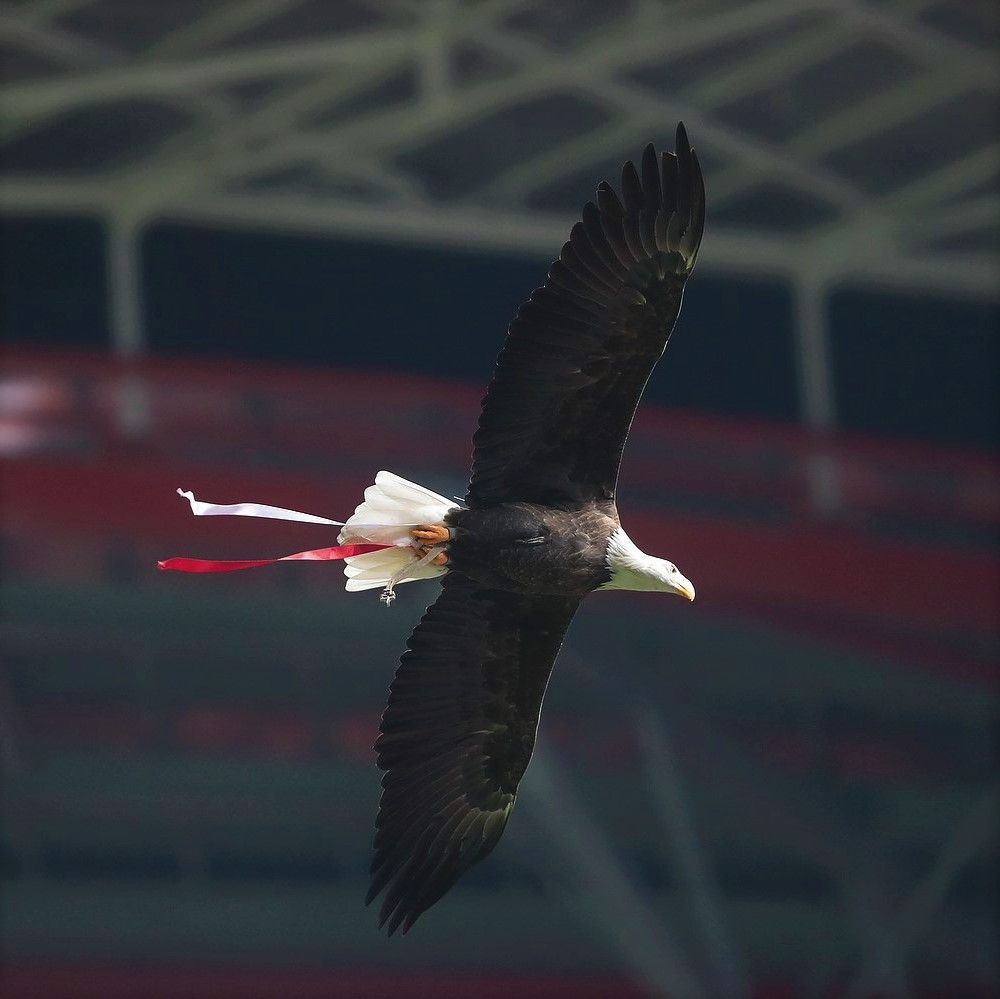 Benfica-Zenit UEFA Champions League 2019/20 (10/12/2019)